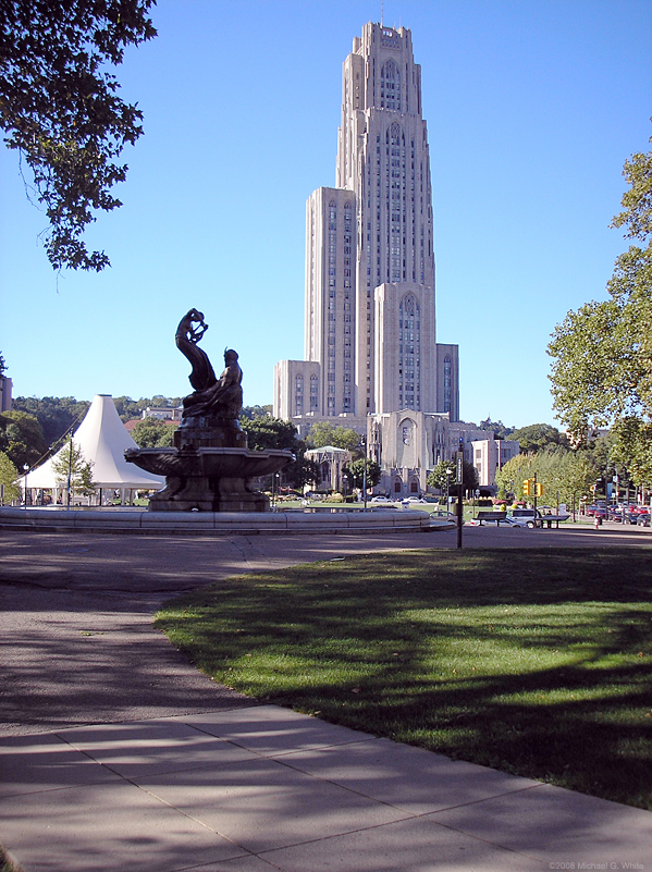 The Cathedral of Learning as viewed from the Frick Fine Arts Building at the University of Pittsburgh